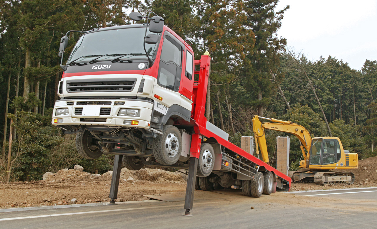 Fujita Body High-jack Self Loader